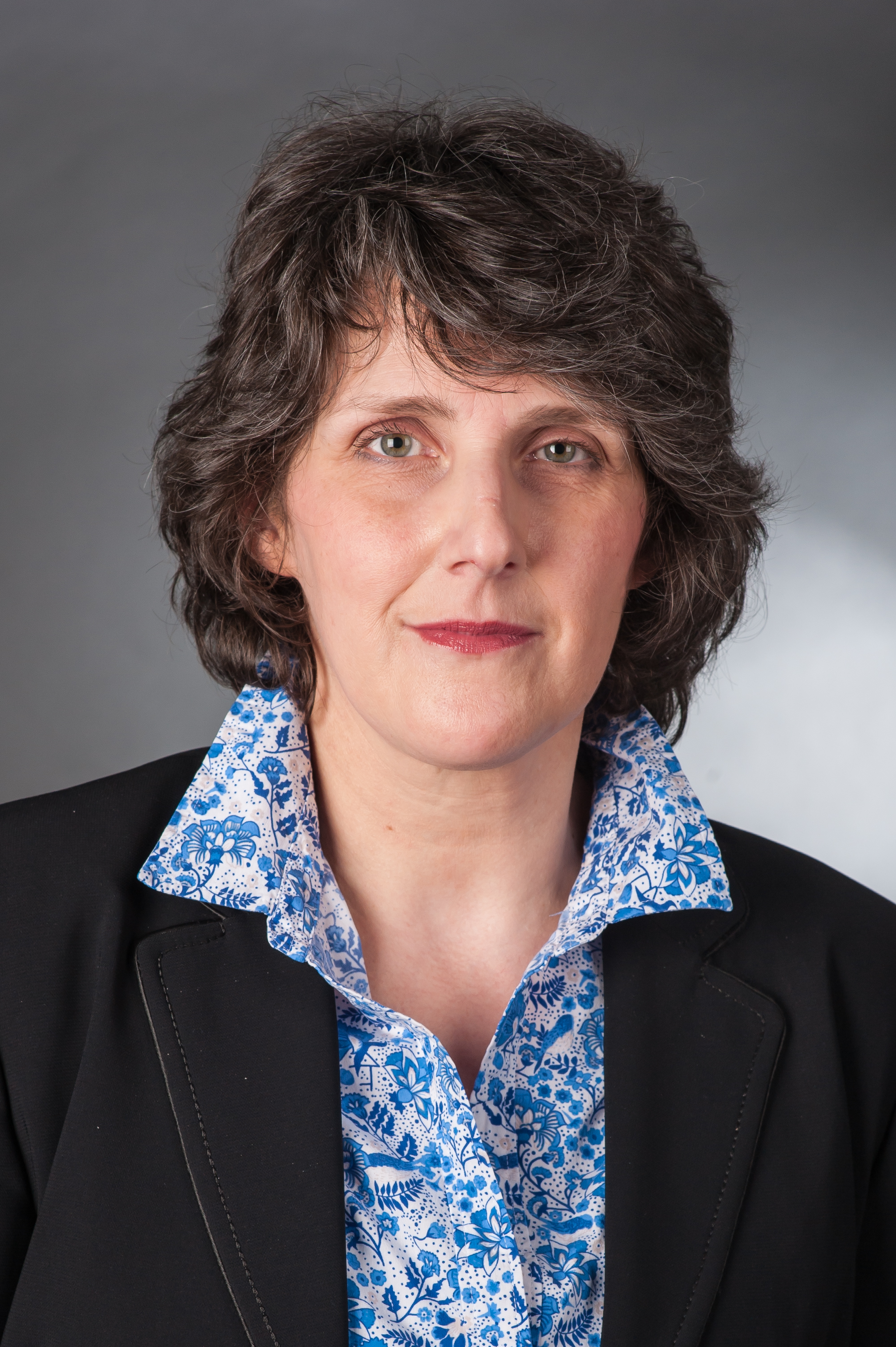 Wikipedia im Landtag – Niedersachsen 17. bis 18. April 2013 in Hannover Personality rights warningAlthough this work is freely licensed or in the public domain, the person(s) shown may have rights that legally restrict certain re-uses unless those depicted consent to such uses. In these cases, a model release or other evidence of consent could protect you from infringement claims.